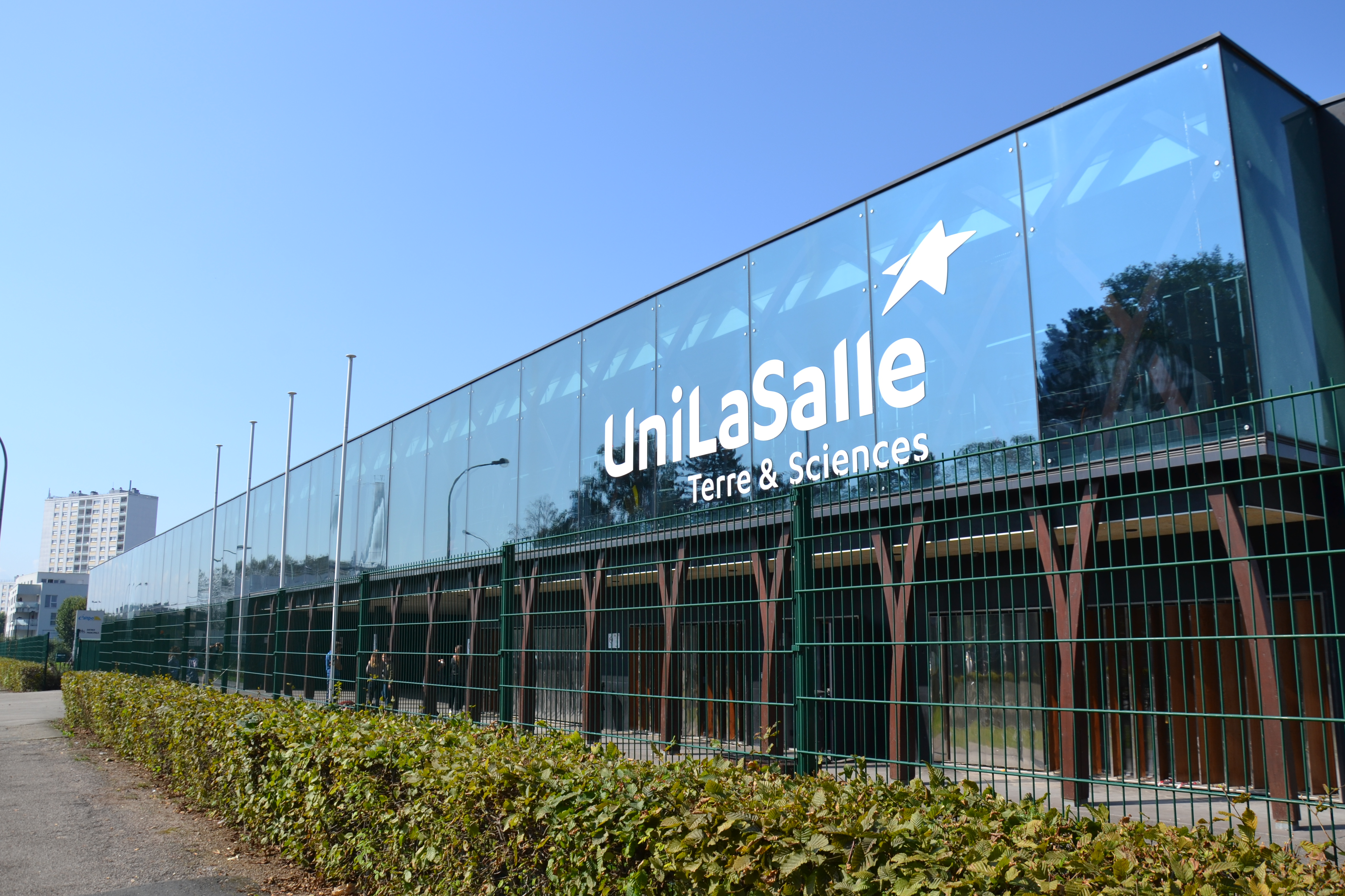 The UniLaSalle campus in Mont-Saint-Aignan (Rouen) is located in the heart of the university district. It welcomes nearly 700 students.